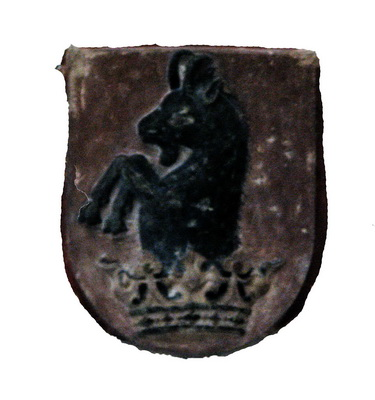 Stema familiei nobile Silaghi